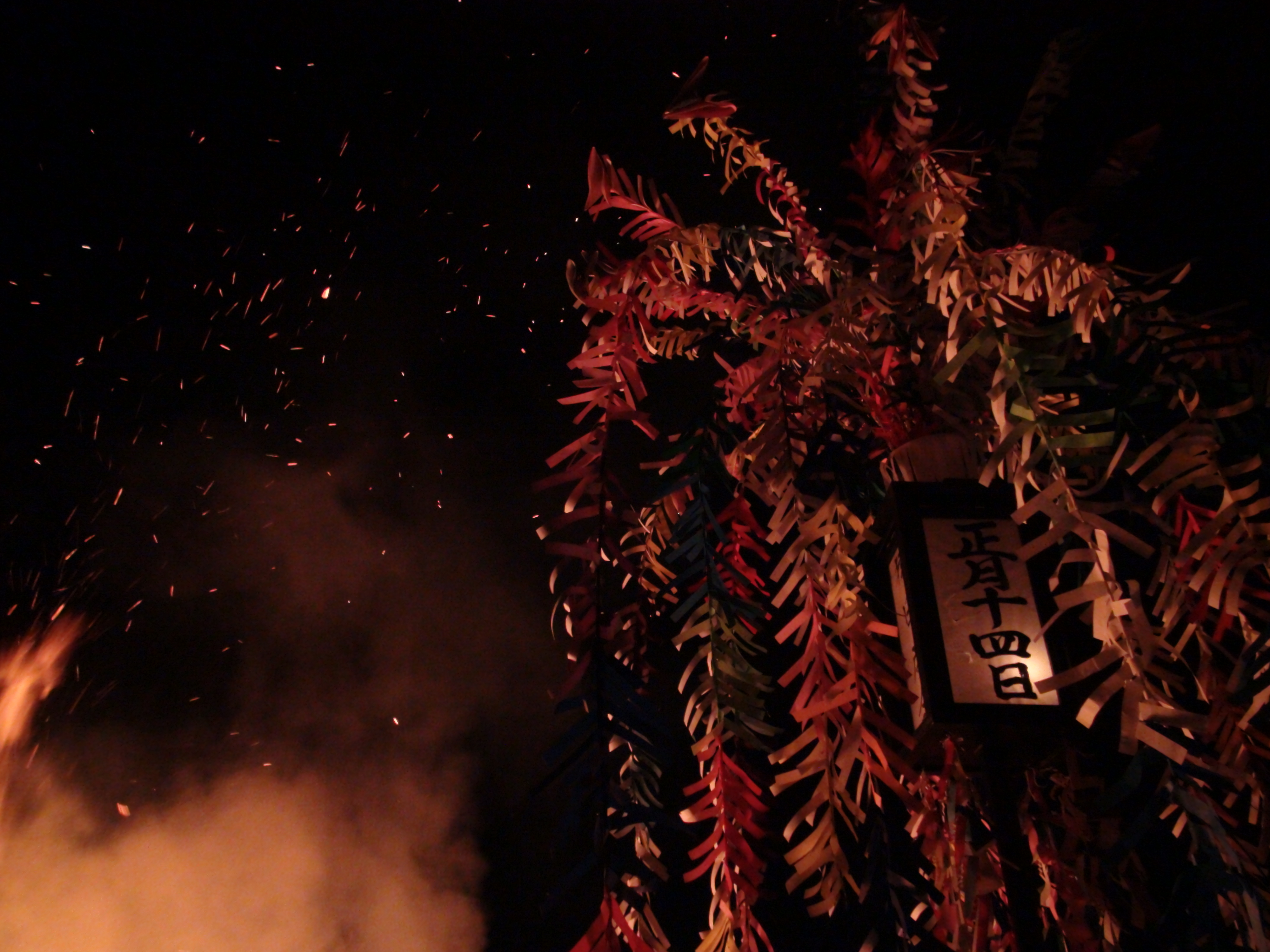 Ichinose Takahashi no Harukoma Ornament of traditional festivals